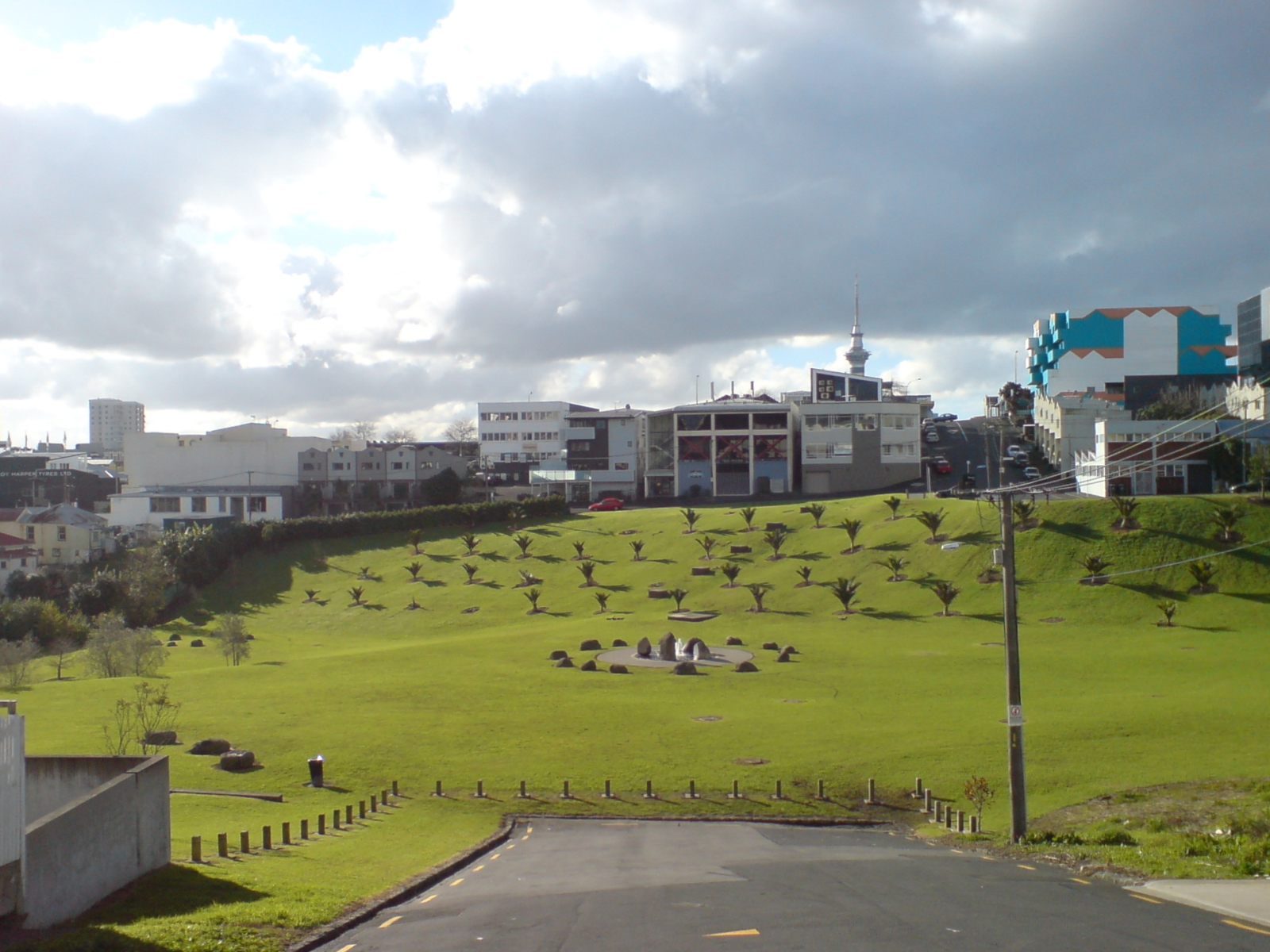 Basque Park in Newton in Auckland City, New Zealand. This very "new-looking" (trees only recently planted etc...) park actually has a long history of several decades - a history of never really getting finished as a park until the early 2000s.